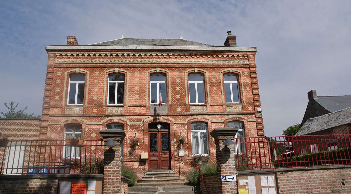 La Mairie